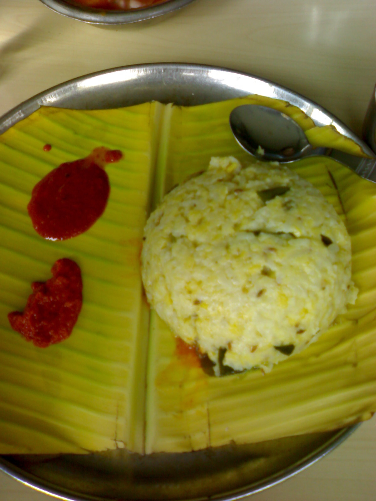 Rice Pongal.